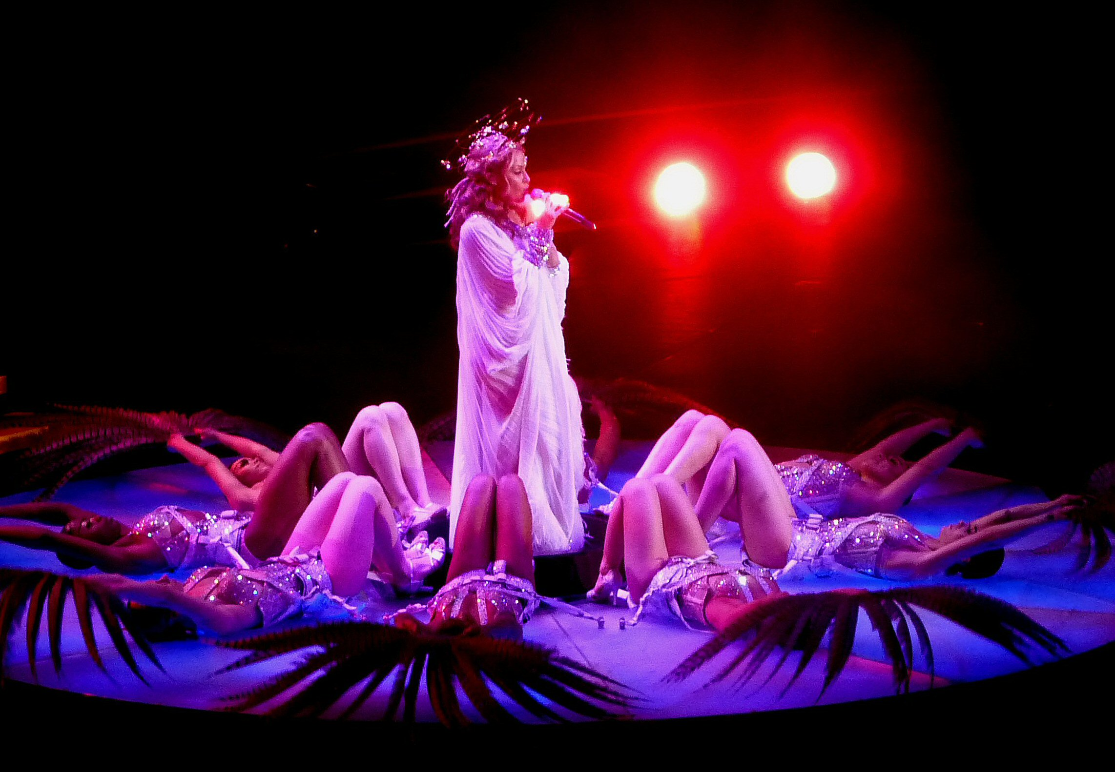 Kylie Minogue performs at Bercy, Paris on her Aphrodite Tour